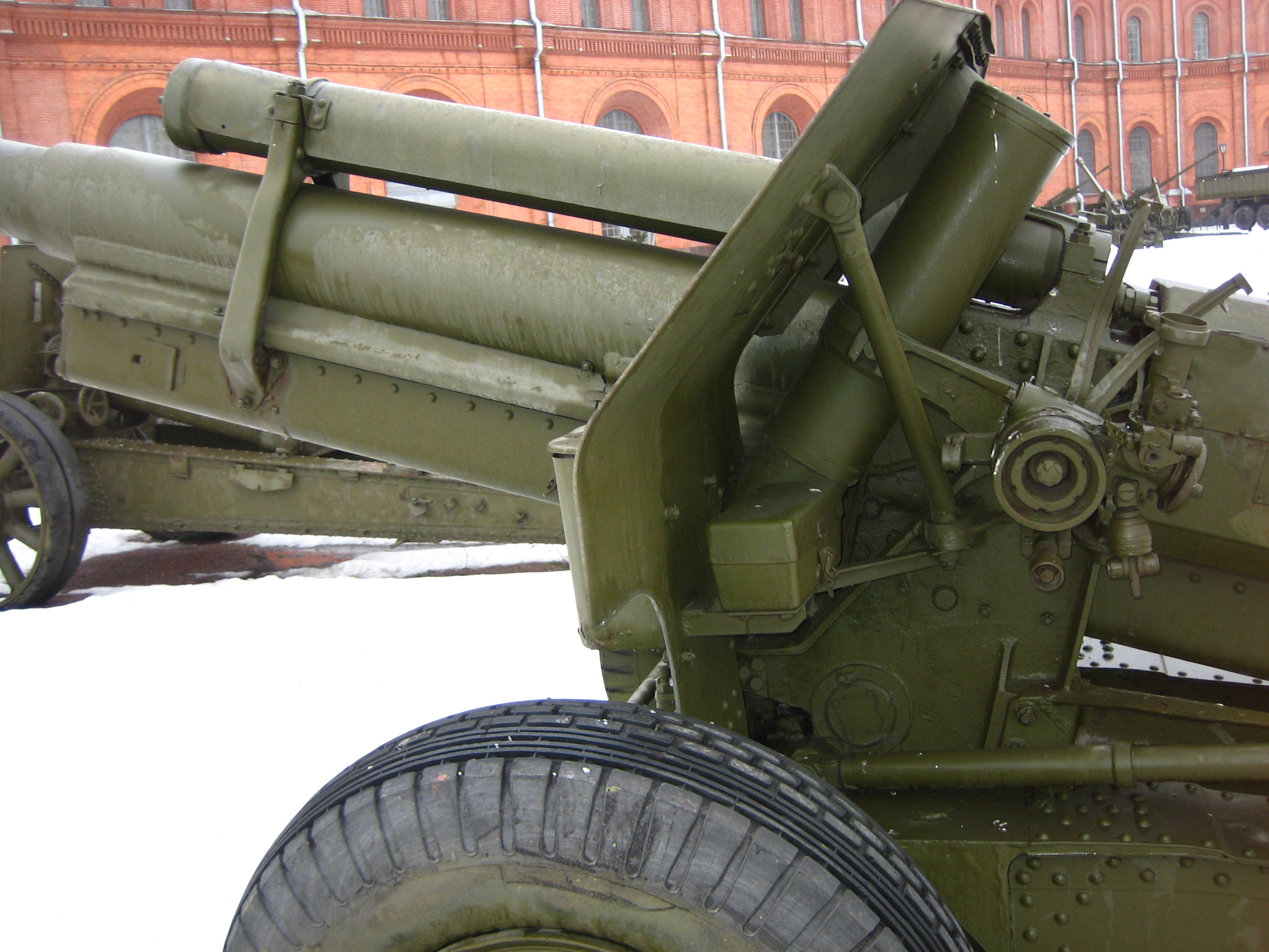 Soviet 107 mm M-60 Mark 1940 gun, displayed in Saint Petersburg Artillery Museum. Photo taken on 3 Marсh, 2007. Source: Photo by me, User:Saiga20K.